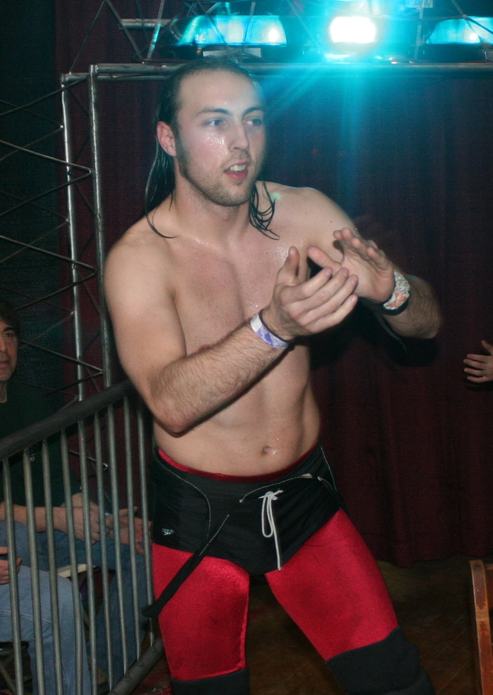 the wrestler colin delanay